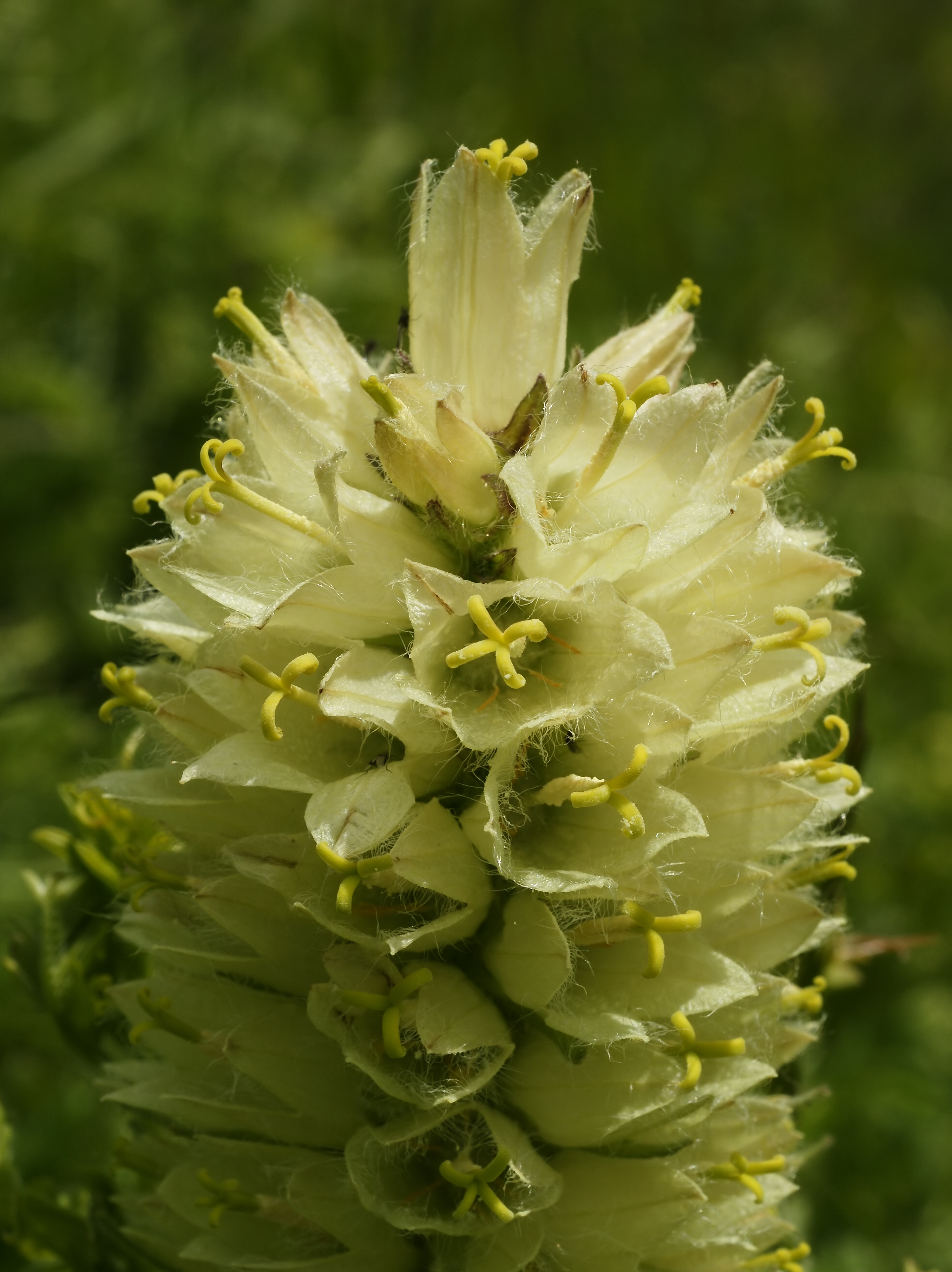 Bellflower at the Swiss/Italian border at the Grand Saint Bernard Pass.